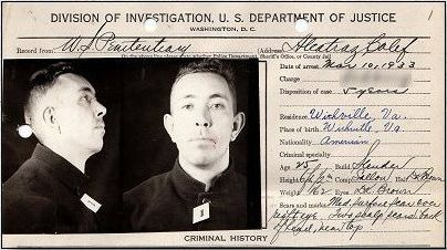 Frank Bolt the first inmate of Alcatraz as federal prison